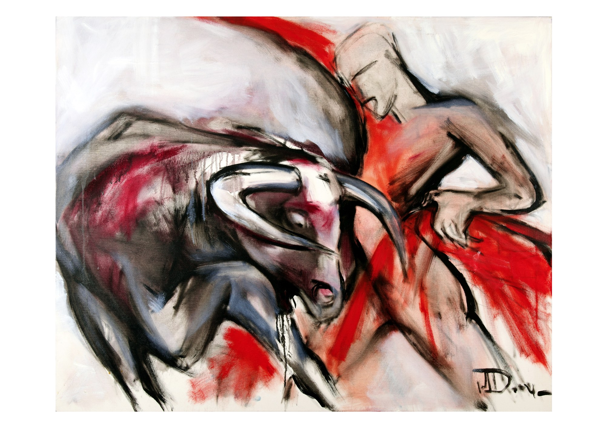 bull fight